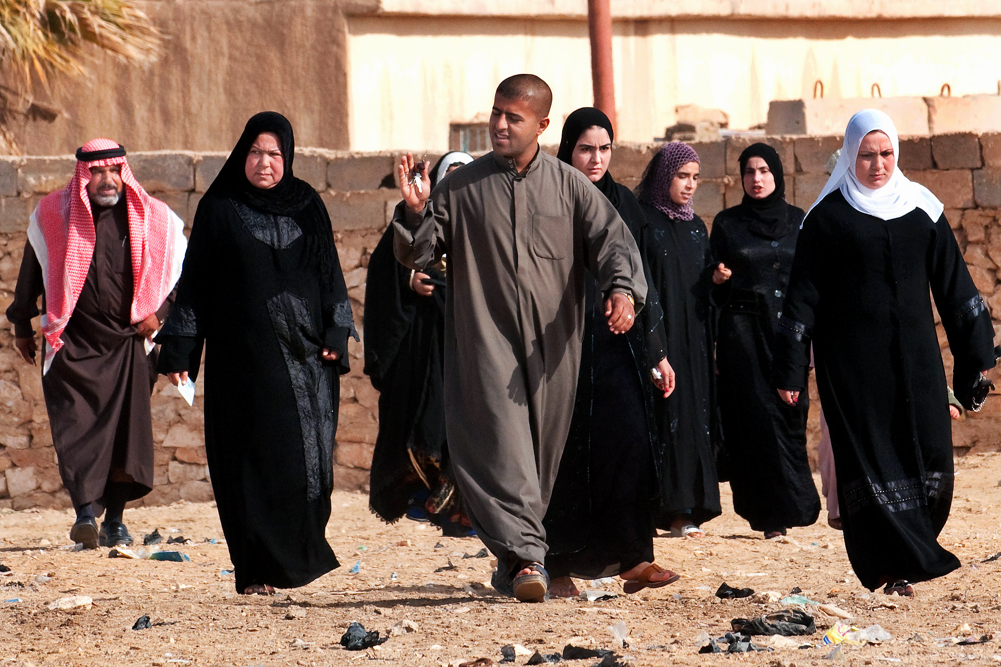 A Ramadi resident smiles while looking at his dyed purple finger, proof that he voted, during national parliamentary elections in Iraq, March 7, 2010. The man is walking with six women and another man, all of whom voted.